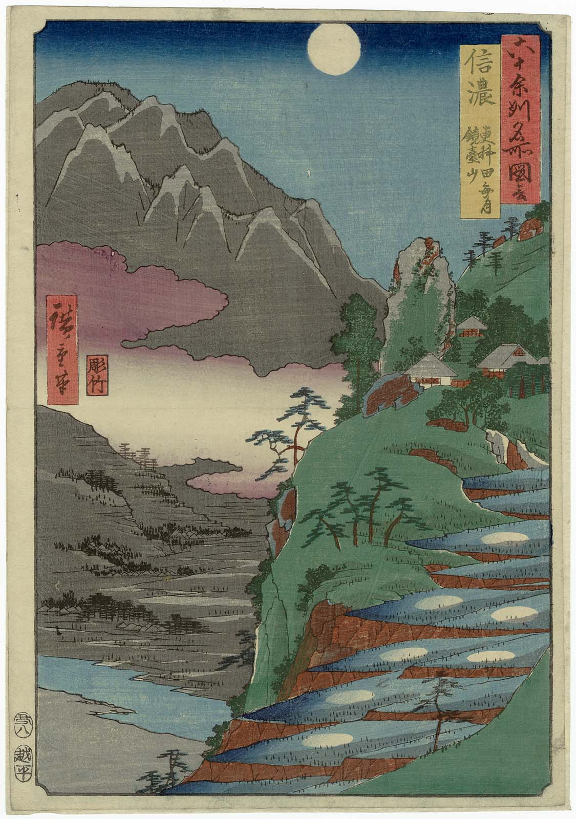 Part of the series Famous Places in the Sixty-odd Provinces, No. 25 (Tōsandō group)